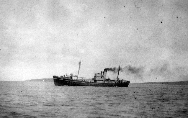 Brittish naval drifter at Skaalefjord, Faeroes.